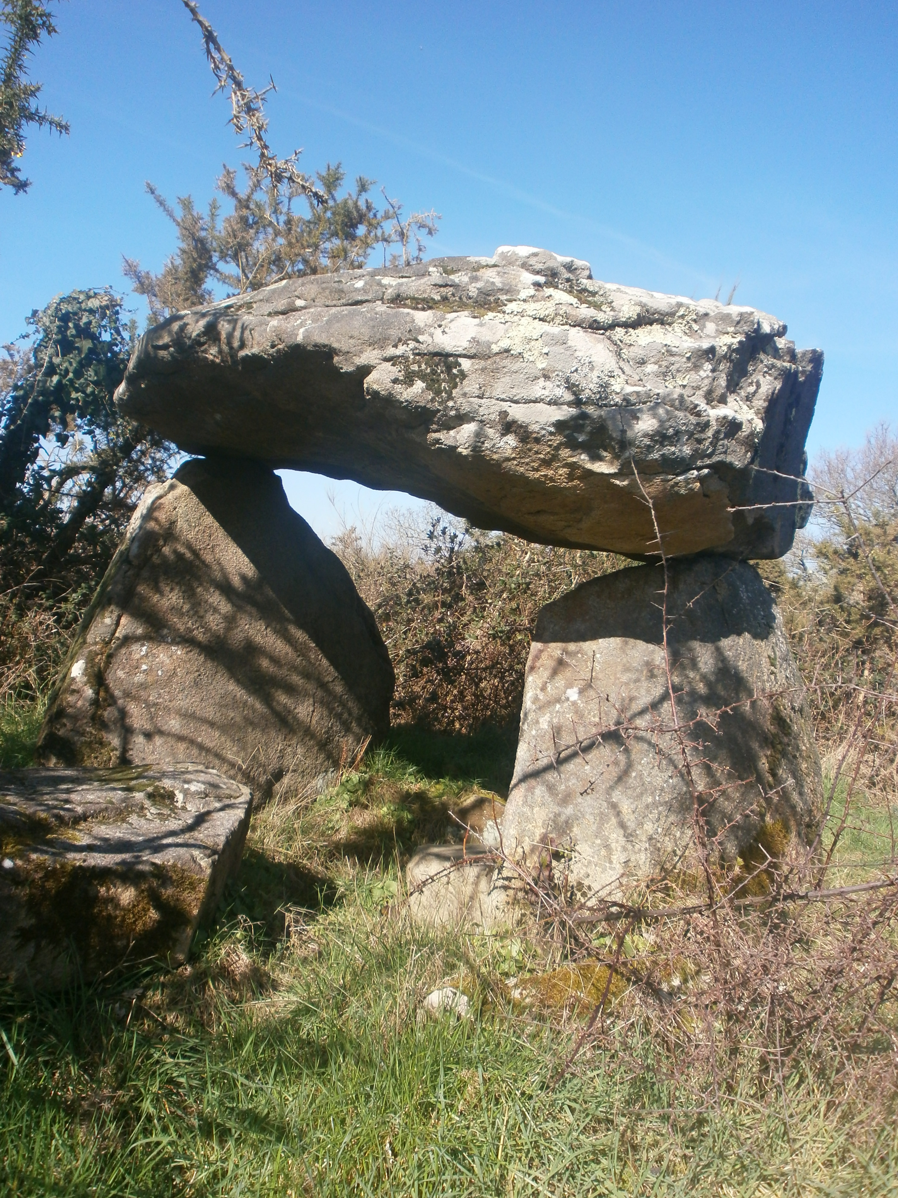 Un dolmen près de Carnac